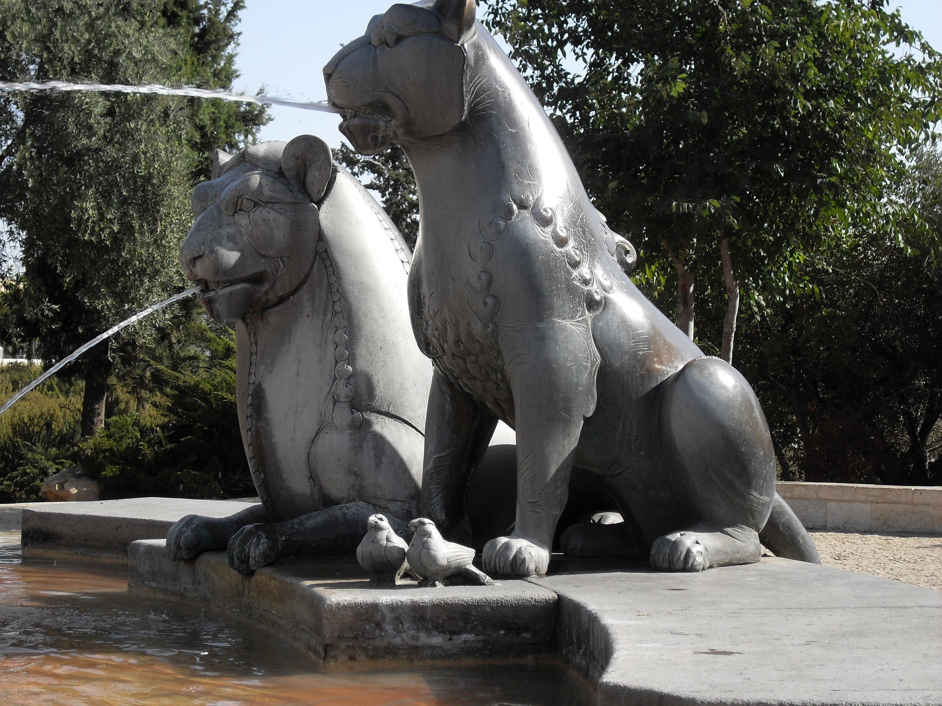 West Jerusalem, Mishkenot Sha'ananim, lions fountain Close Up